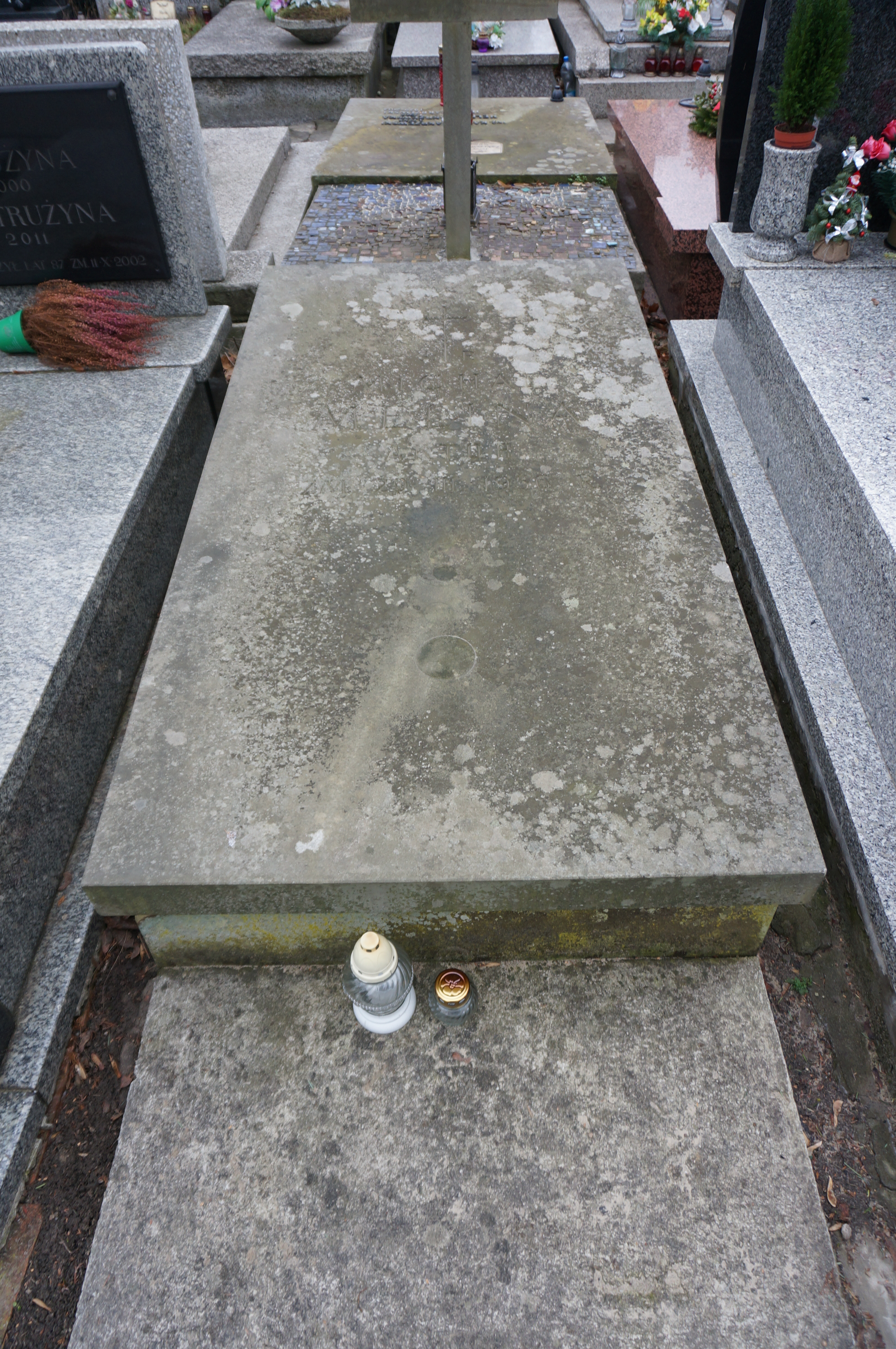 The grave of Michał Melina at the Powązki Cemetery (section 104, row 6, grave 14)